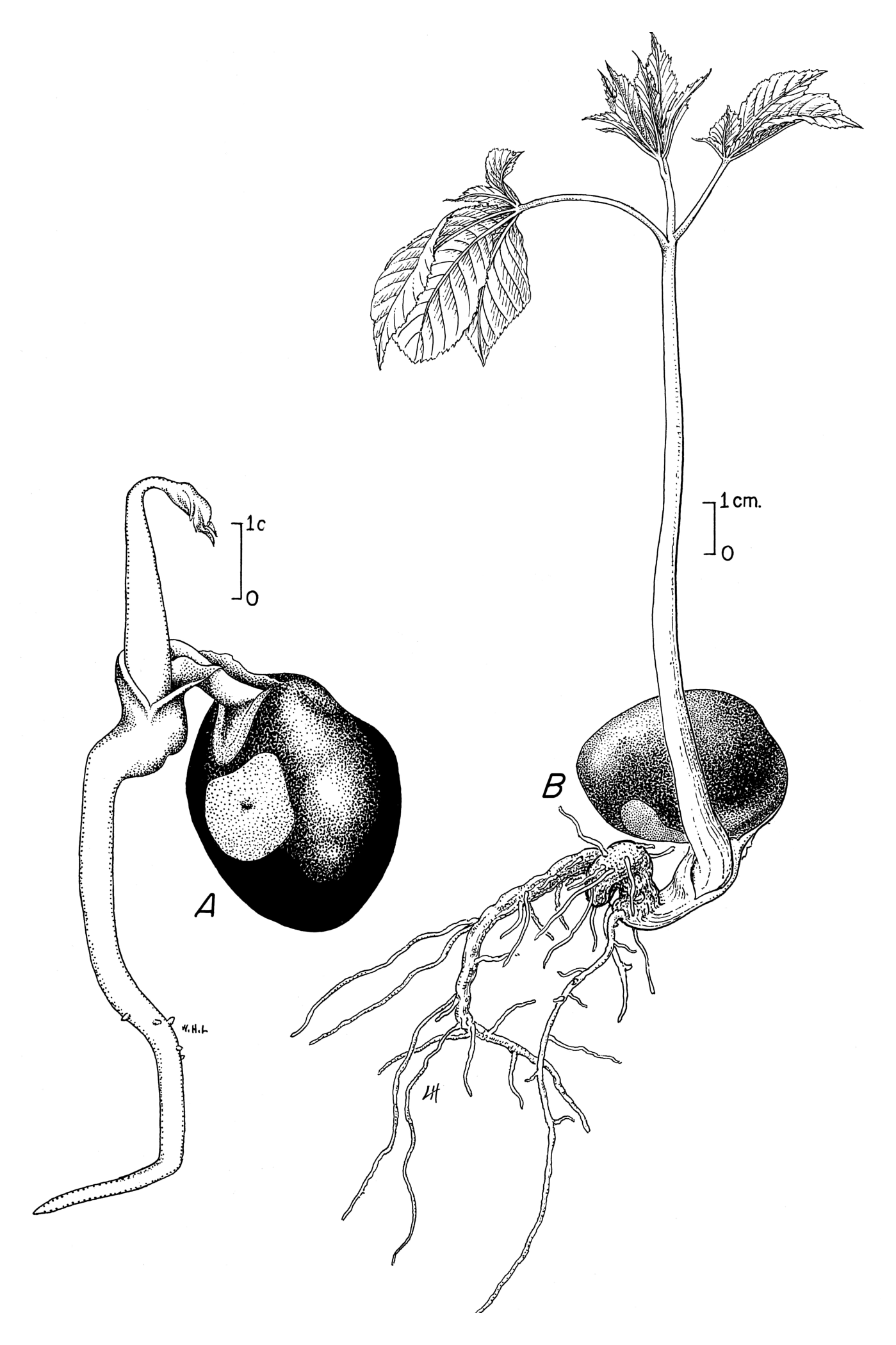 Yellow Buckeye. Drawing of seedling.